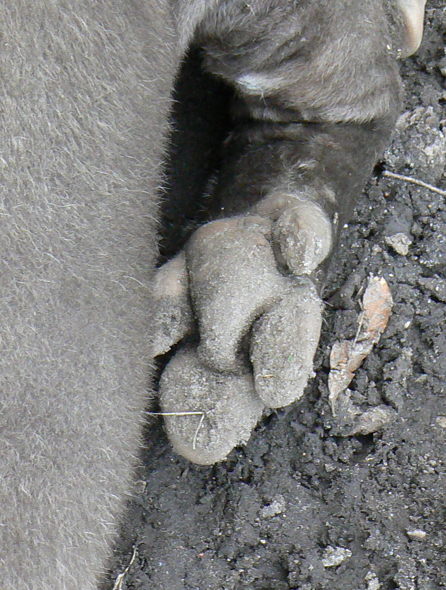 Tapirus terrestris at the zoo of hamburg, germany